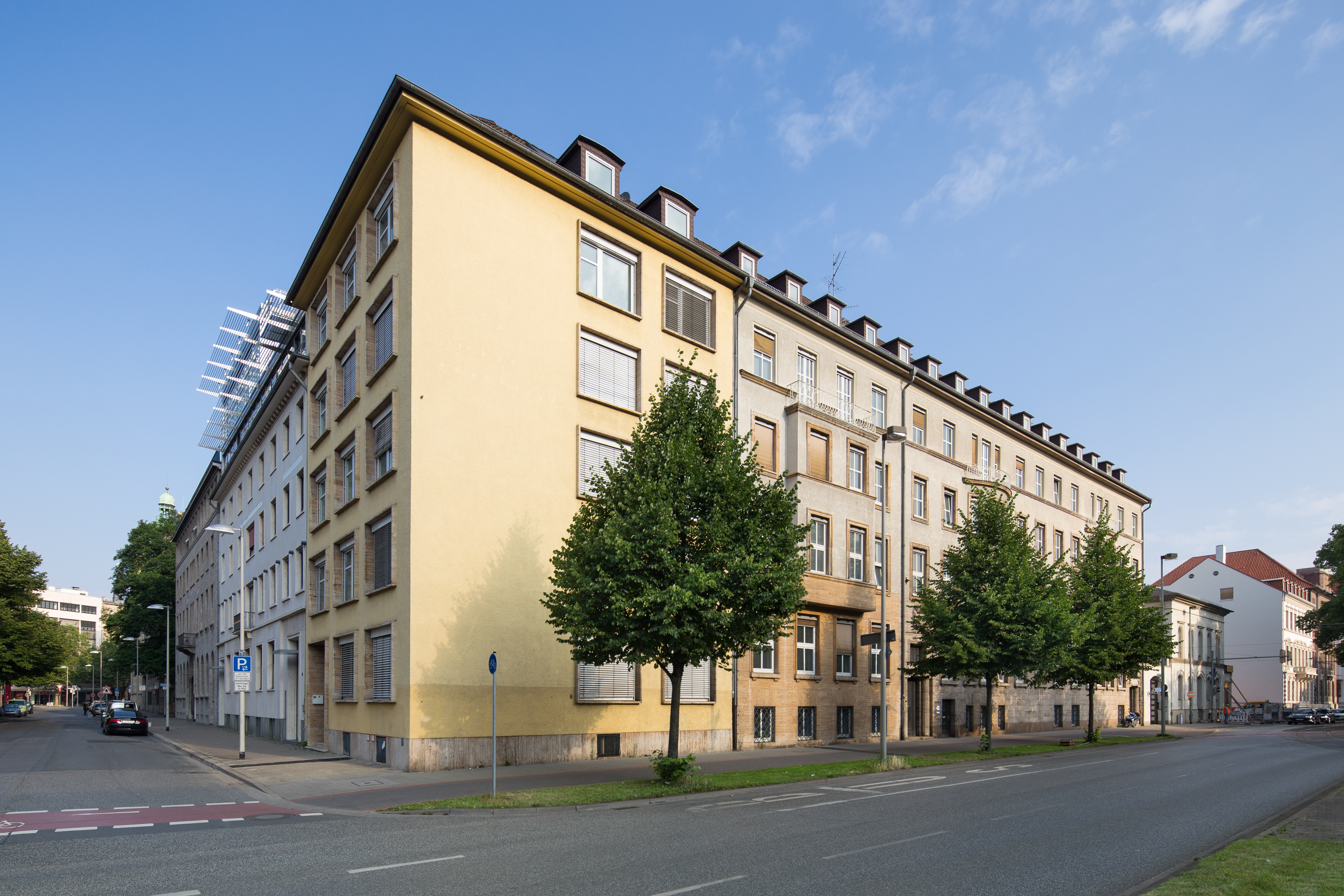 Former office building of the of the German association of cities in Lower Saxony. The house was originally erected as "Bankhaus Caspar" and is located at Prinzentrasse in Hanover, Germany. It will be demolished soon.